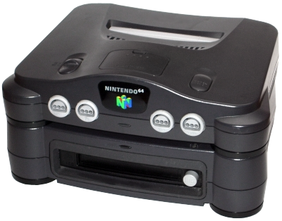 64DD with Nintendo 64.